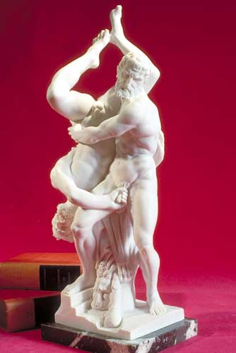 Statuette of Hercules wrestling with Diomedes of Thrace, copied from the original Hercules and Diomedes by Vincenzo de’Rossi in the Palazzo Vecchio, Florence, Italy.